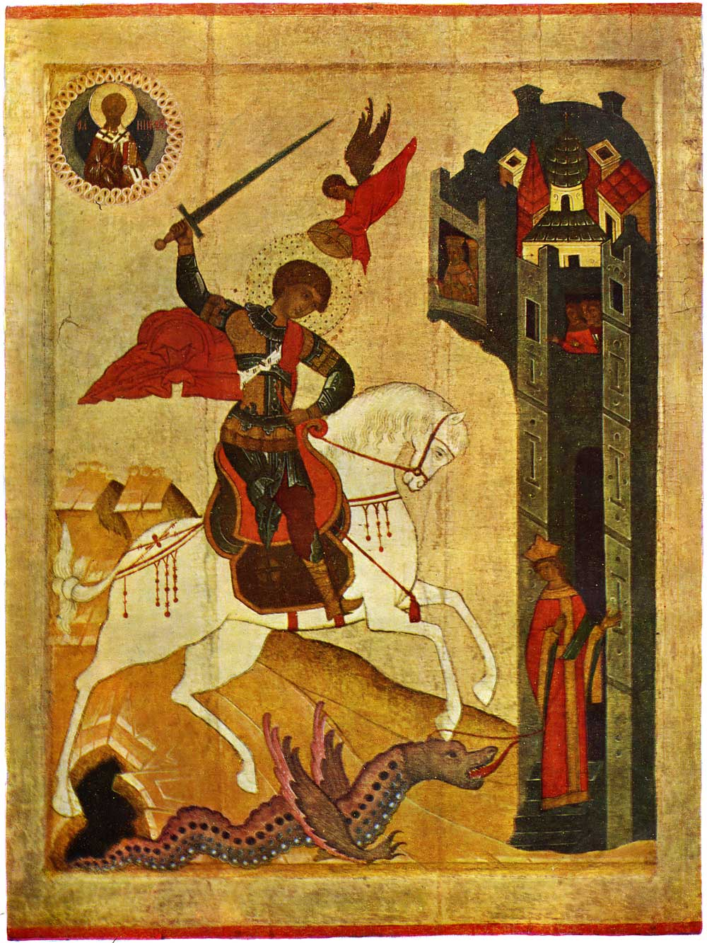 Saint George and the Dragon. Russian icon